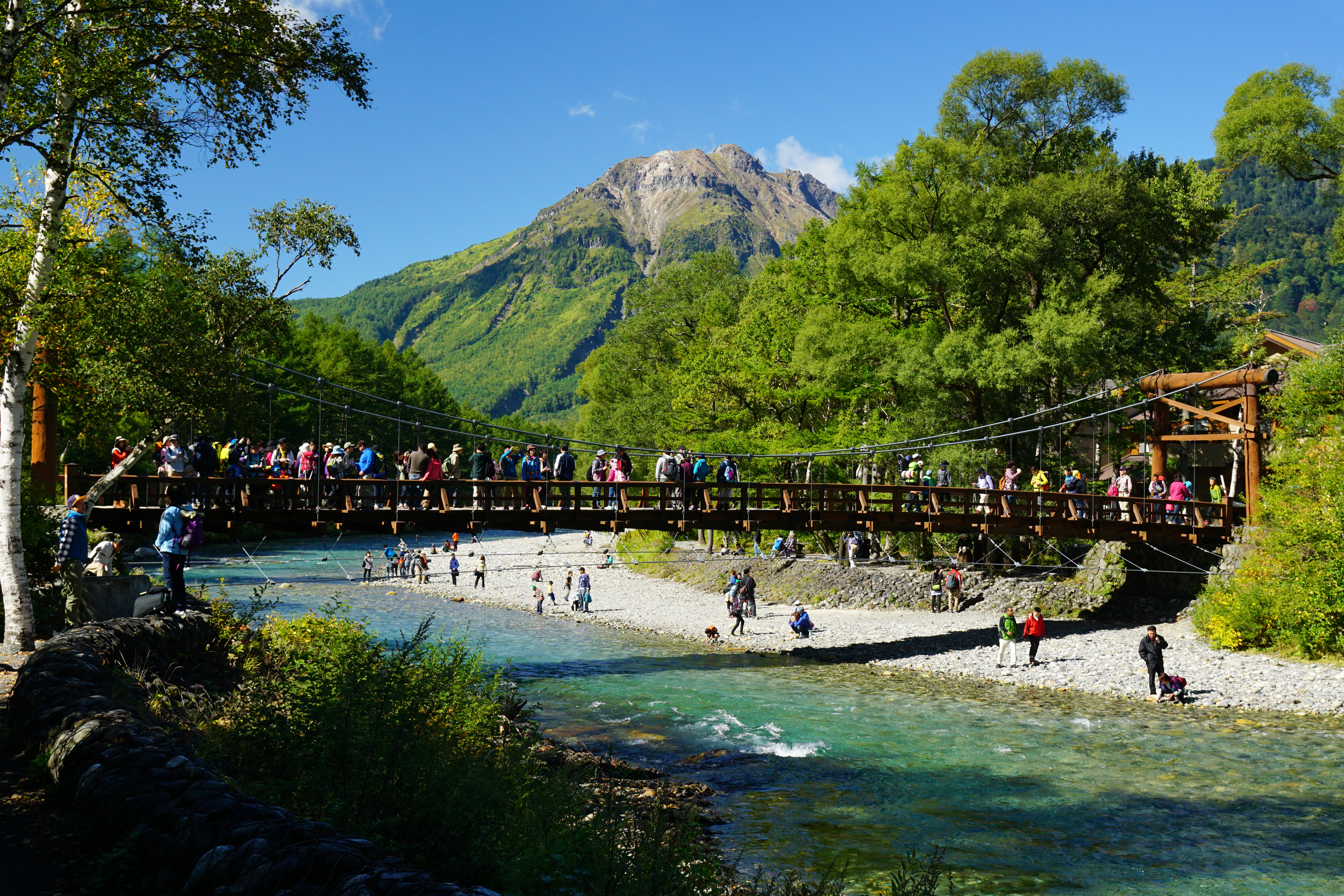 Mount Yake and Kappa-bashi bridge at Kamikochi, Matsumoto, Nagano prefecture, Japan